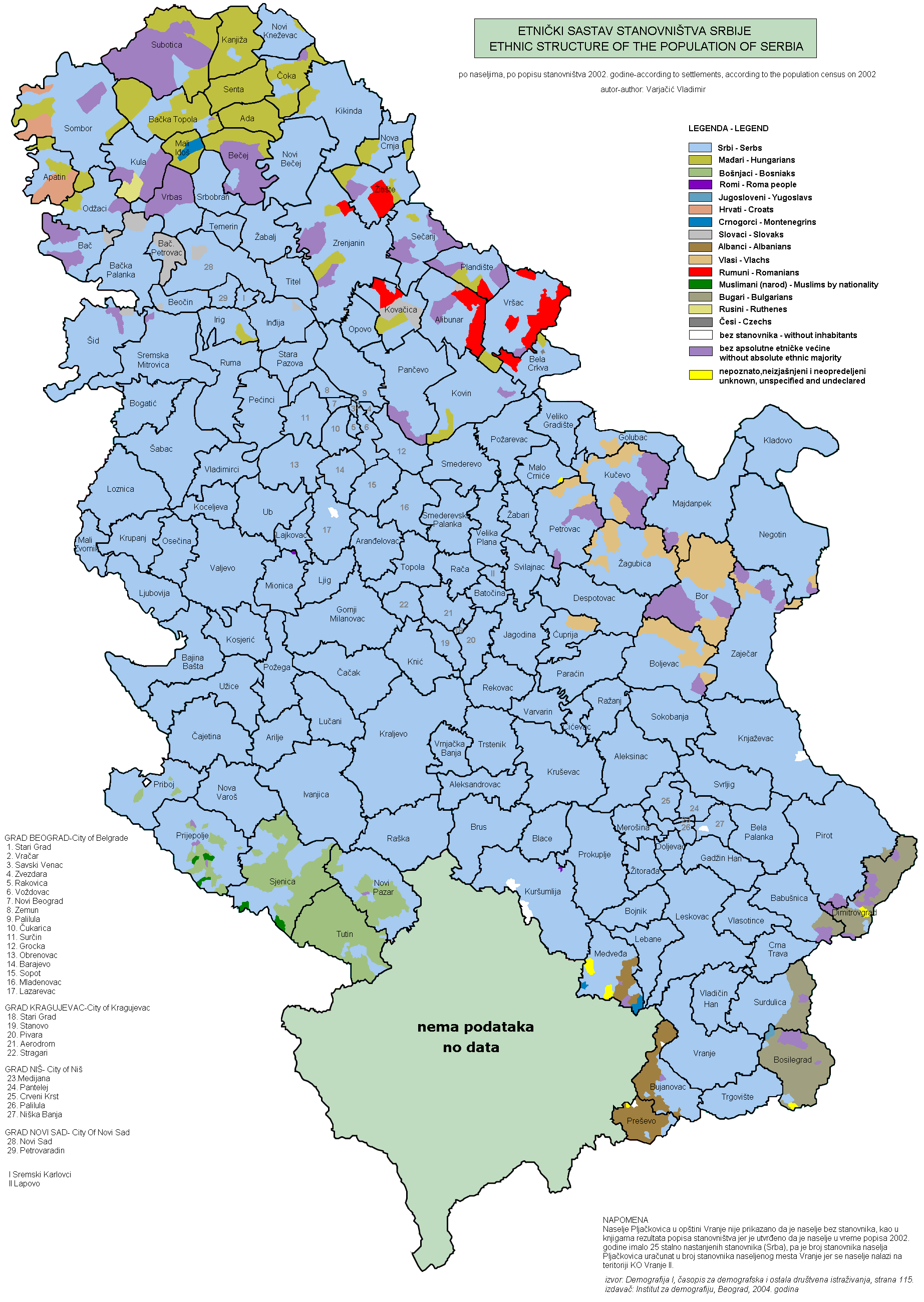 Ethnic structure of the population of Serbia according to the 2002 census, data by settlements.